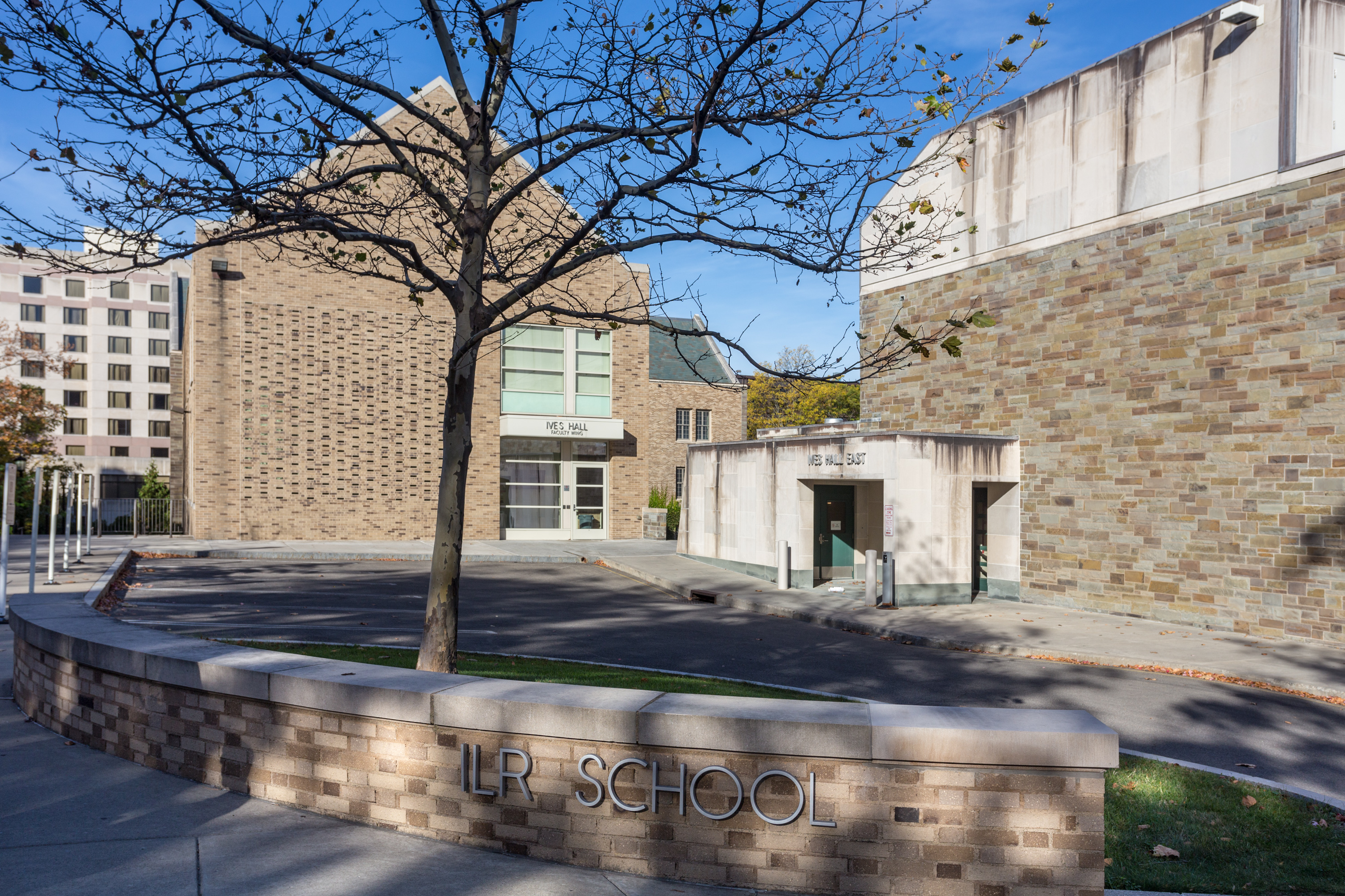 Center is Ives Faculty Wing; to the right is East Ives Hall